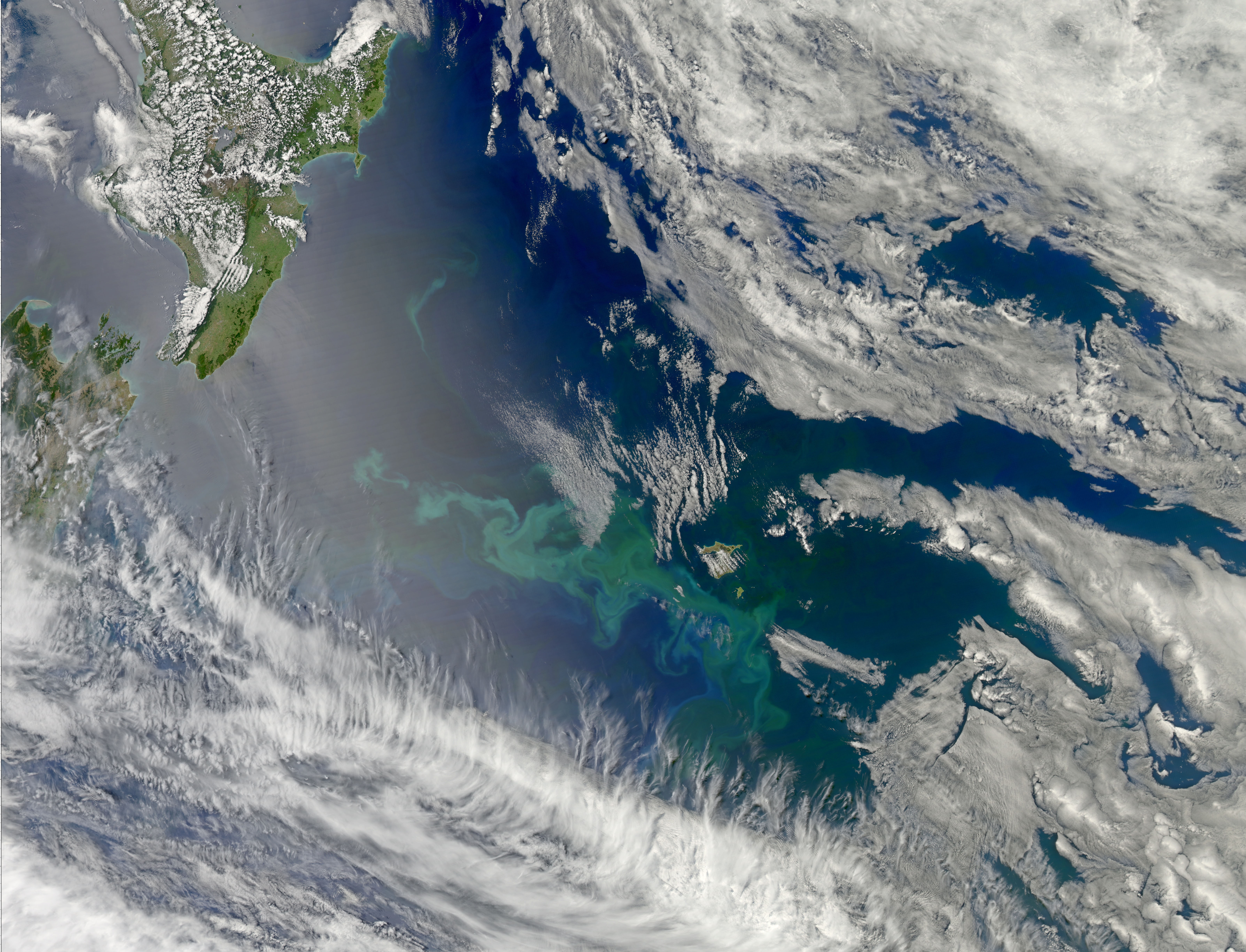 Massive phytoplankton bloom around New Zealand’s Chatham Islands. The bloom is an array of colours from deep green to electric blue, and is probably made up of many different types of marine life, primarily phytoplankton.